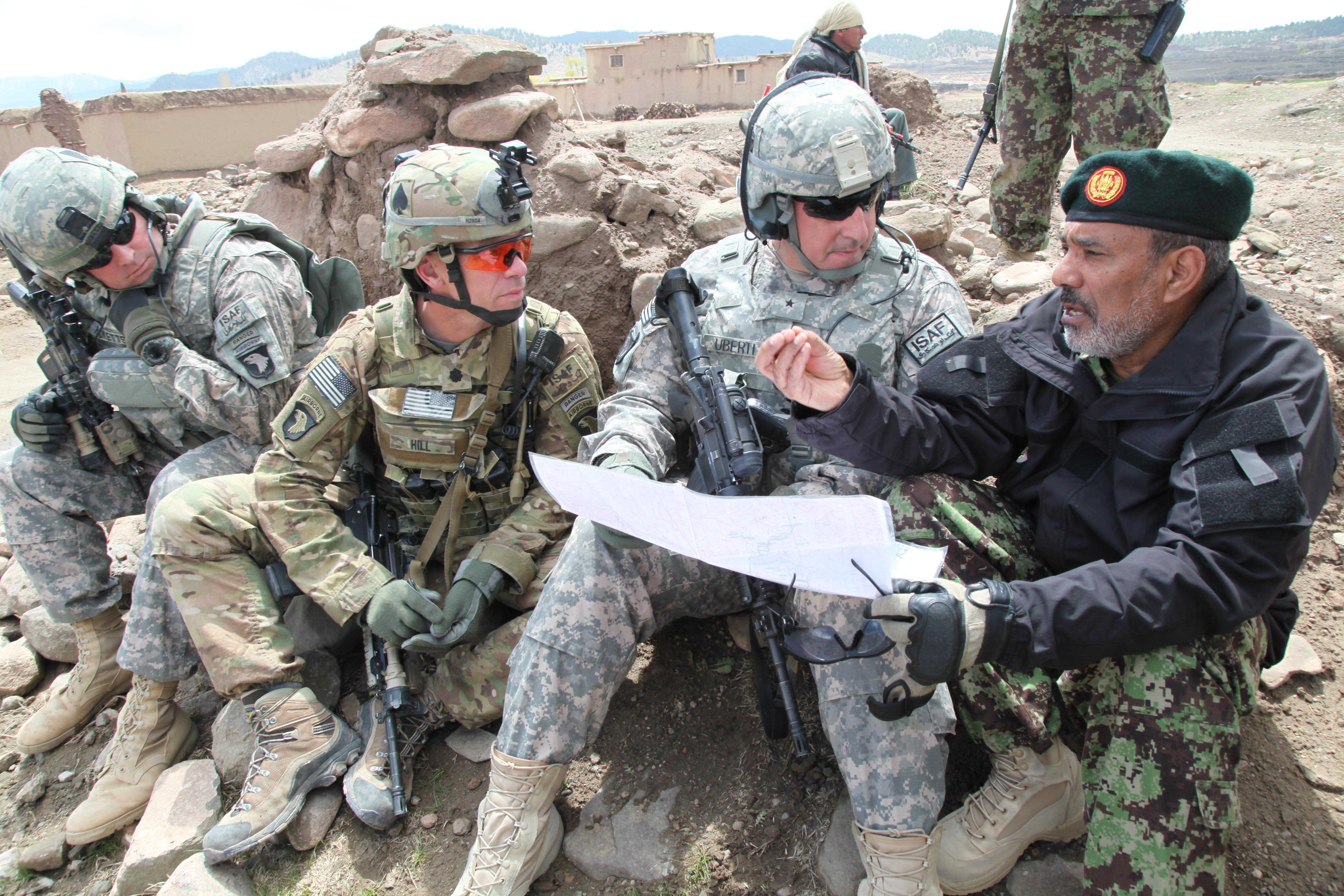 U.S. Army Lt. Col. Darren C. Rickettes (left), Lt. Col. Donn H. Hill (2nd from left) and Deputy Commanding General of Afghan Development Brig. Gen. John Uberti, 101st Airborne Division, talk with an Afghan National Army commander during Operation Overlord in the Naka district of Paktika province, Afghanistan, on April 14, 2011. Operation Overlord is a division-level air assault mission designed to trap Taliban forces in the province.